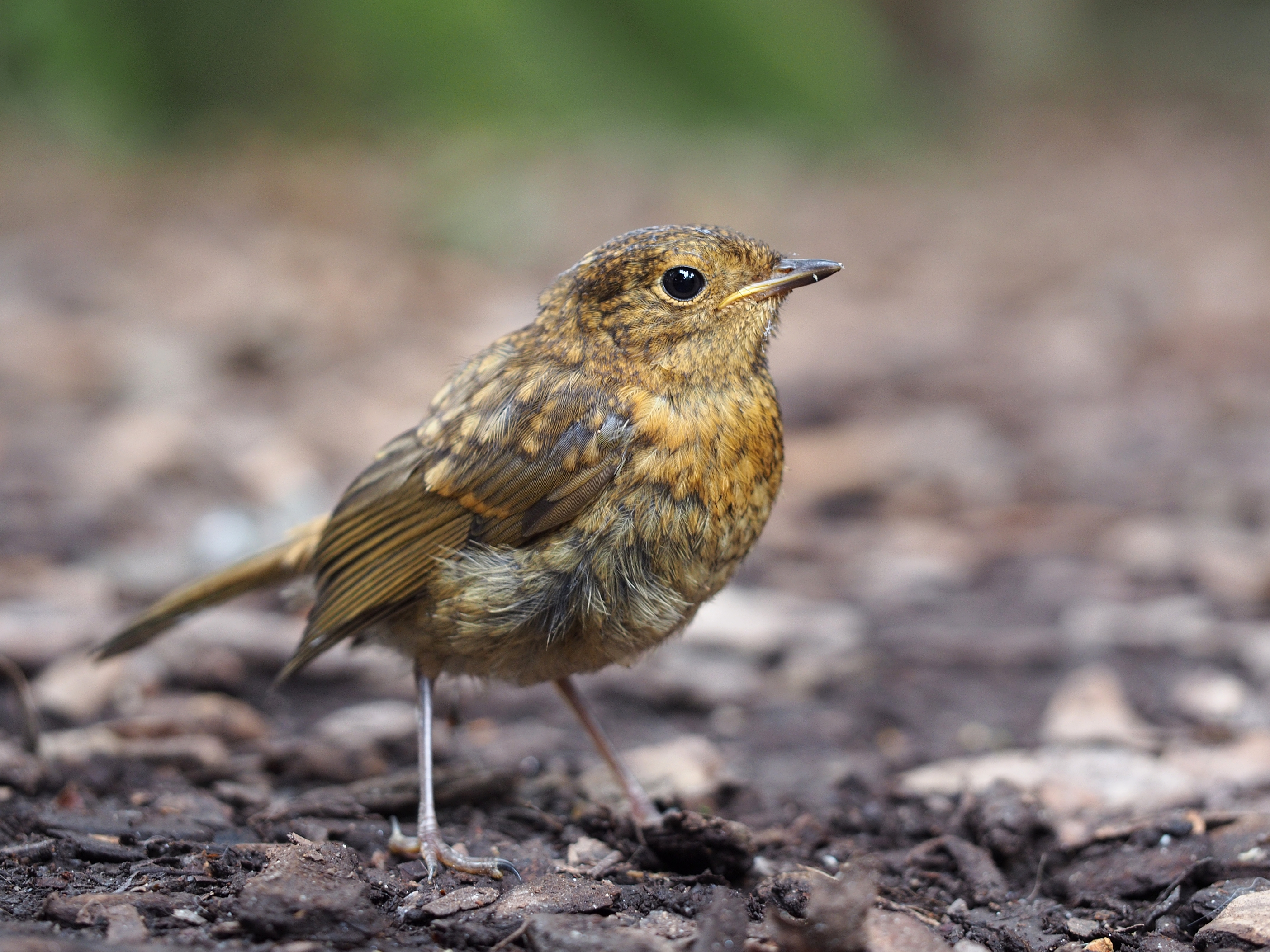 Young European Robin, Erithacus rubecula. Cornwall, UK